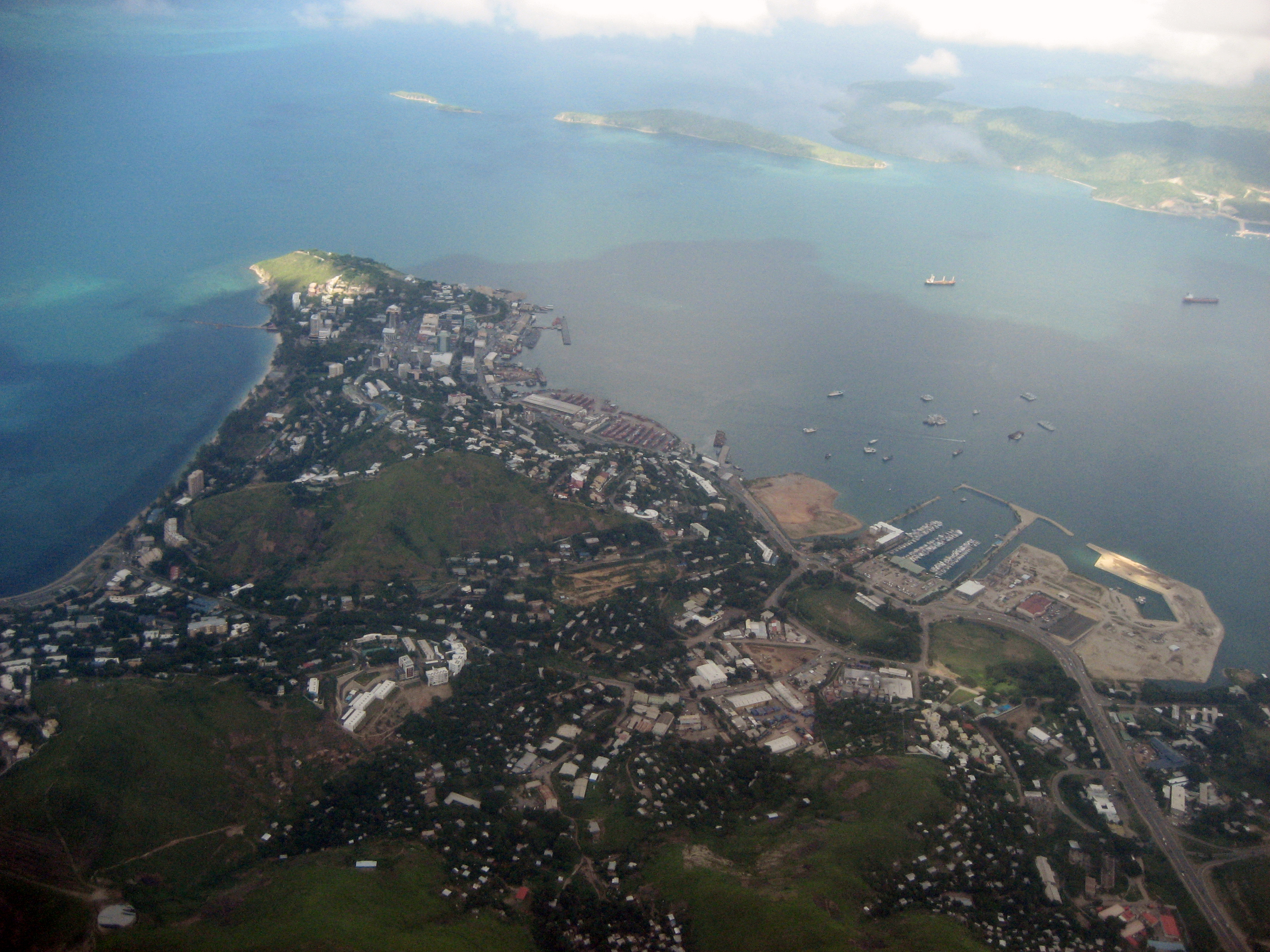 Aerial view of Port Moresby